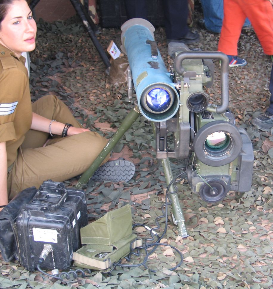 Gil AT missile launcher. Independence Day exhibition at Yad la-Shiryon Museum, Latrun, Israel.